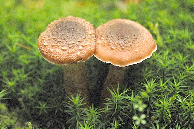 Armillaria ostoyae from Commanster, Belgium. The determination of the species shown in this picture has been verified.